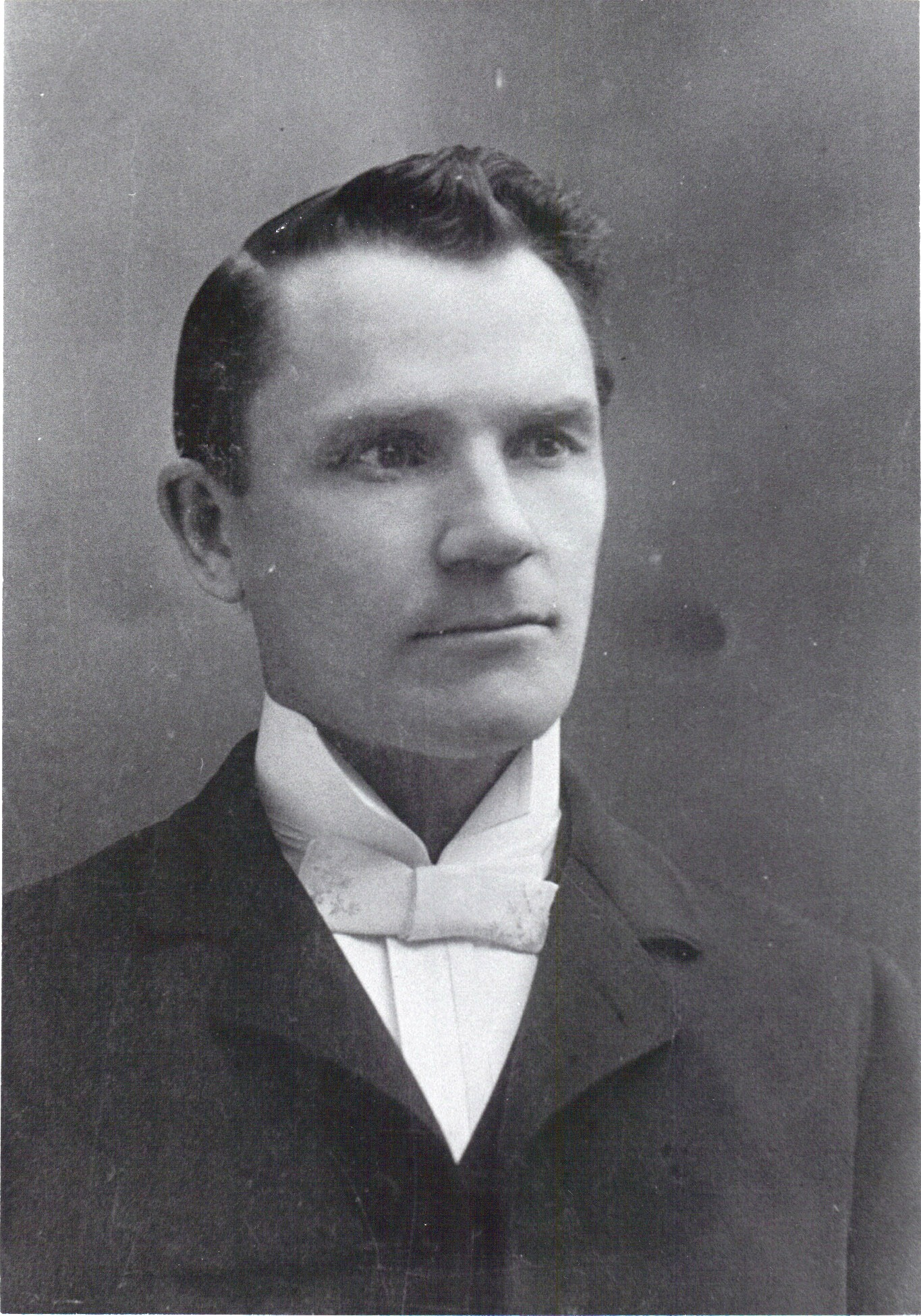 Eugene C. Sanderson, founder and first president of Eugene Divinity School (now Northwest Christian University) in Eugene, Oregon.